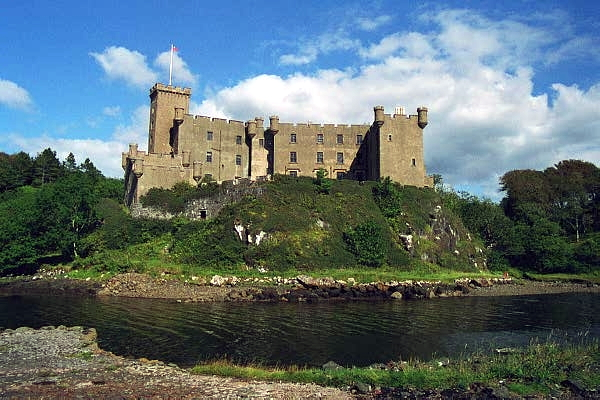 Dunvegan Castle: Isle of Skye